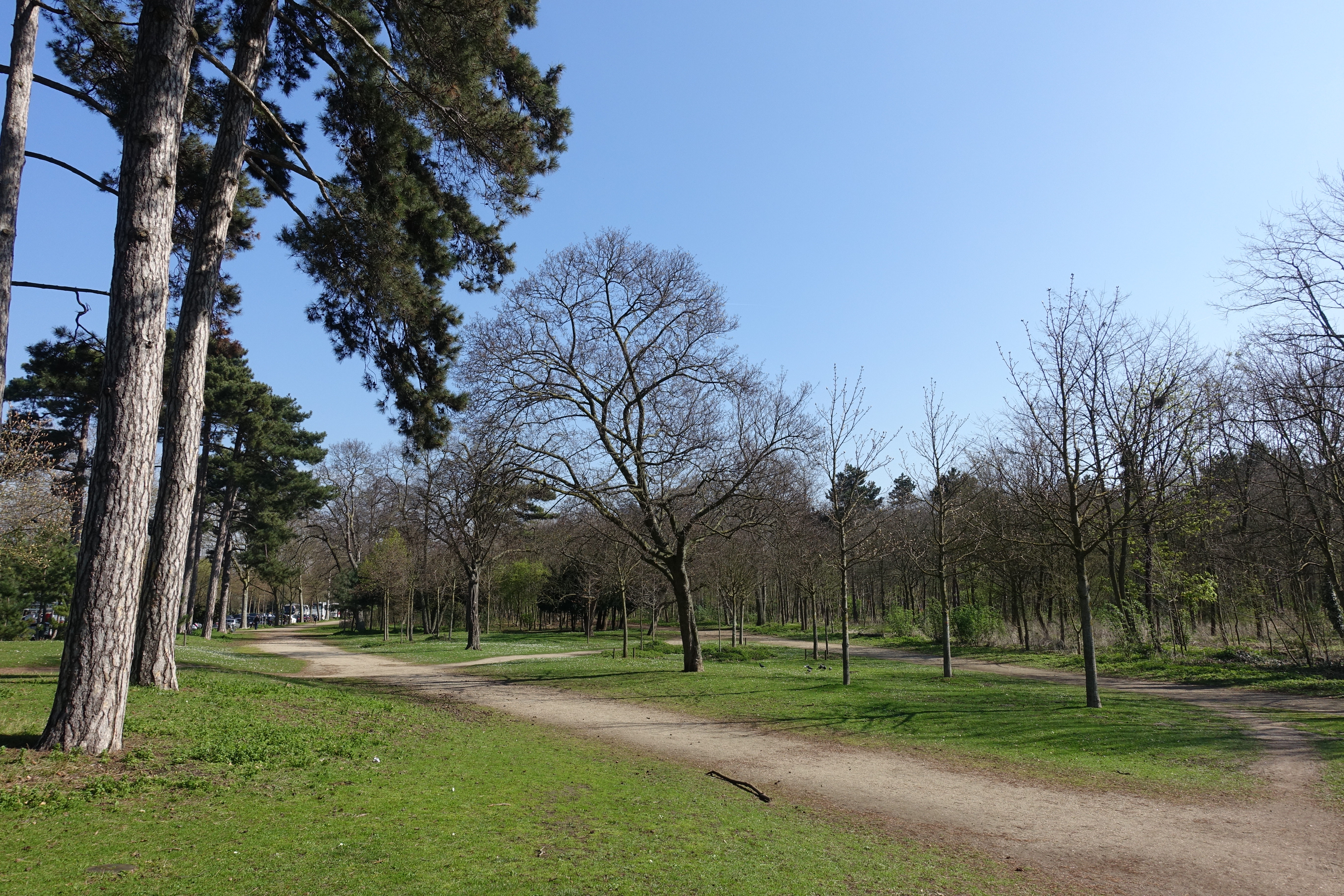 Bois de Boulogne